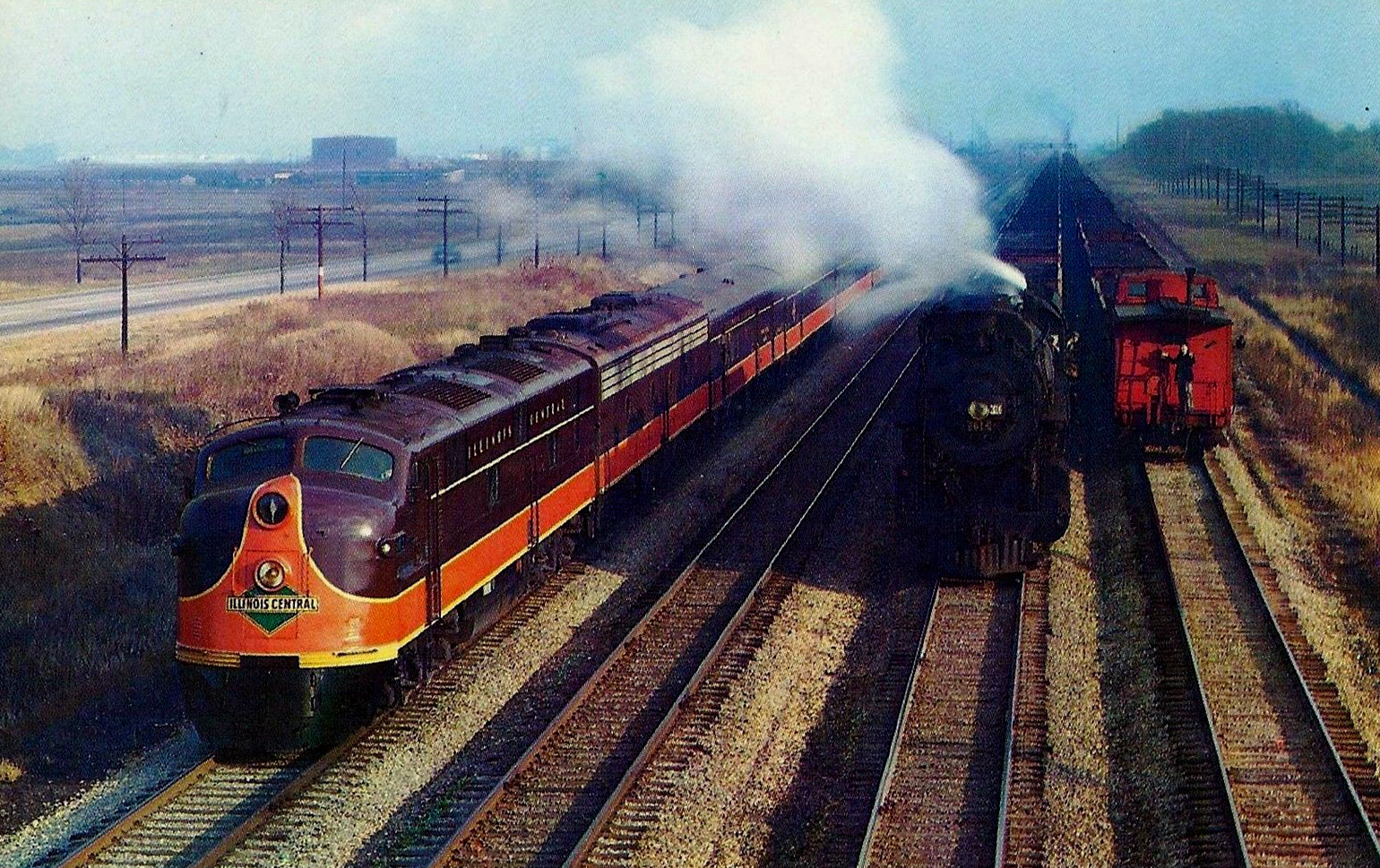 Postcard photo of the Illinois Central train "Panama Limited".